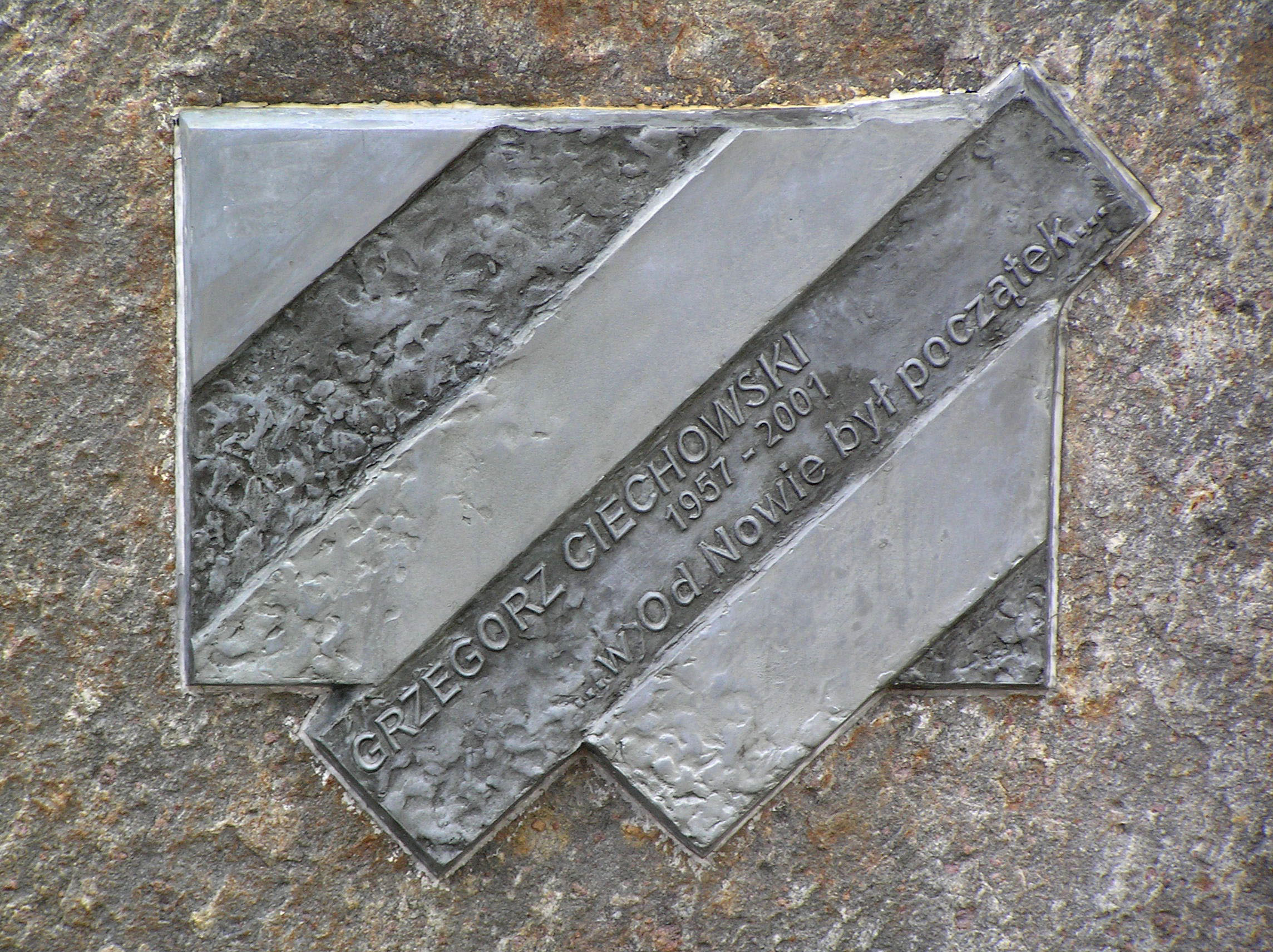 Toruń, plaque commemorating Grzegorz Ciechowski in front of "Od Nowa" club